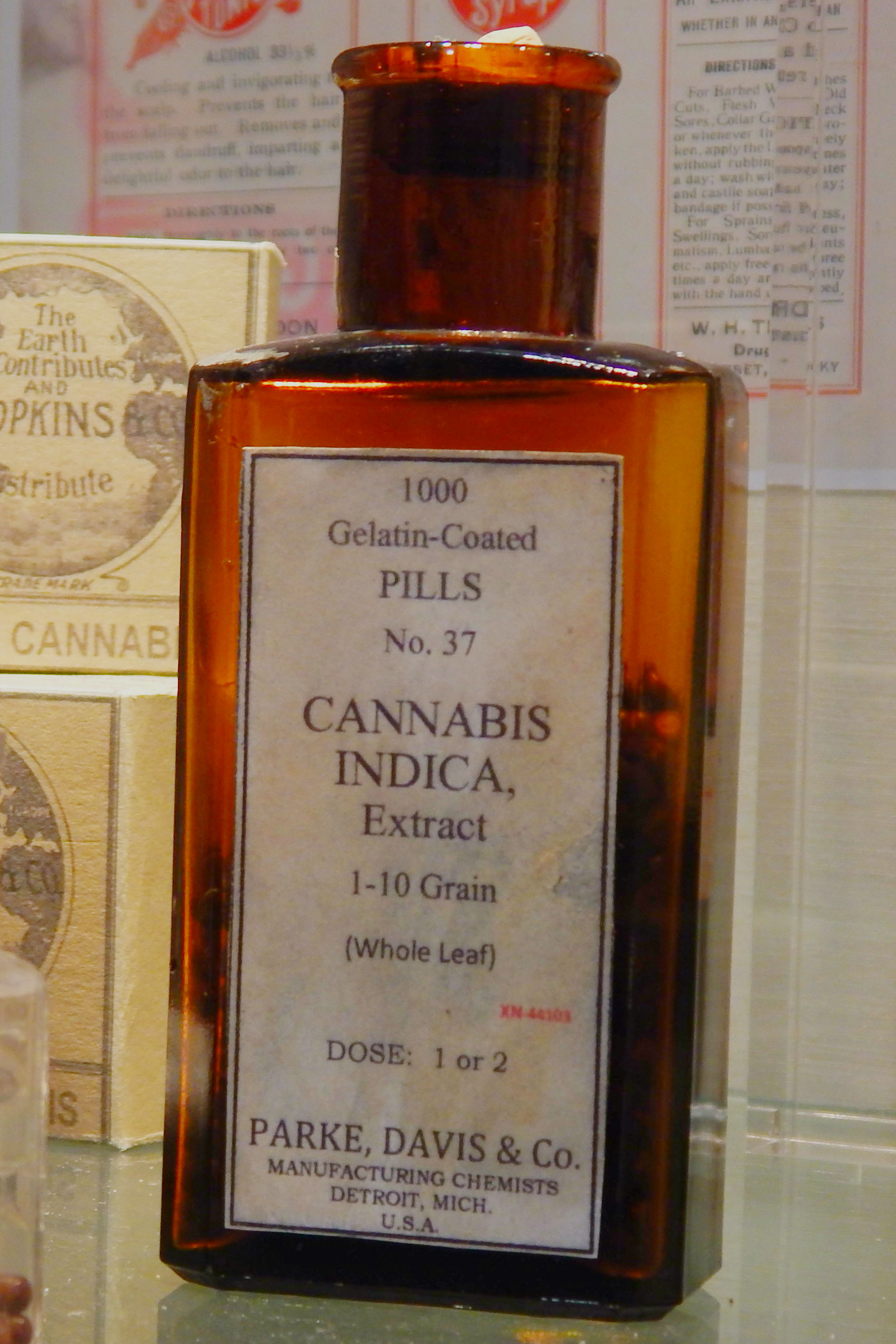 Old medicine bottle of gelatin-coated pills made from Cannabis indica extract. Manufactured by Parke, Davis & Co. From the Hash, Marihuana & Hemp Museum in Amsterdam.